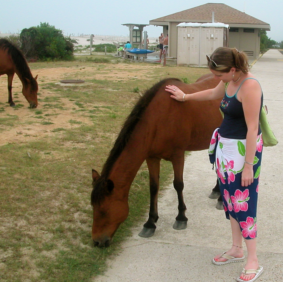 Lyndi patting a wild pony near a beach parking lot on Assateague Island, MD, where the ponies roam free.